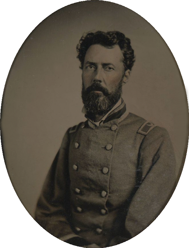 Half-plate tintype with applied color of a half portrait of Brigadier General Carnot Posey in uniform. The front case cover is missing. An attached note reads "This picture is sent, for you to make the shape of the shoulders as mutch [sic] like it as possible, the shirt and coat collar to fit and appear in the painting as it does in this picture, with stars; and wreath around the collar. no plates on shoulders wanted. R. M. Taylor" This photograph of Brig. Gen. Carnot Posey was taken in Corinth, Mississippi in 1862. Photographed with the crescent insignia of a Mississippi militia colonel, Posey had been an officer in Col. Jefferson Davis's Mississippi Rifles during the Mexican War. After a successful legal career (including a stint as U.S. district attorney), Posey raised a company for Confederate service and became colonel of the 16th Mississippi Infantry. He was in command of a brigade in the Army of Northern Virginia in 1863 when he was severely wounded in the thigh at the Battle of Bristoe Station, Virginia. He was transported to Charlottesville, Virginia, where he was hospitalized in the same West Lawn room he had occupied while studying law at the University of Virginia. It was in this room that he died of infection November 16, 1863. From the Collections of the Confederate Memorial Literary Society managed by the Virginia Historical Society